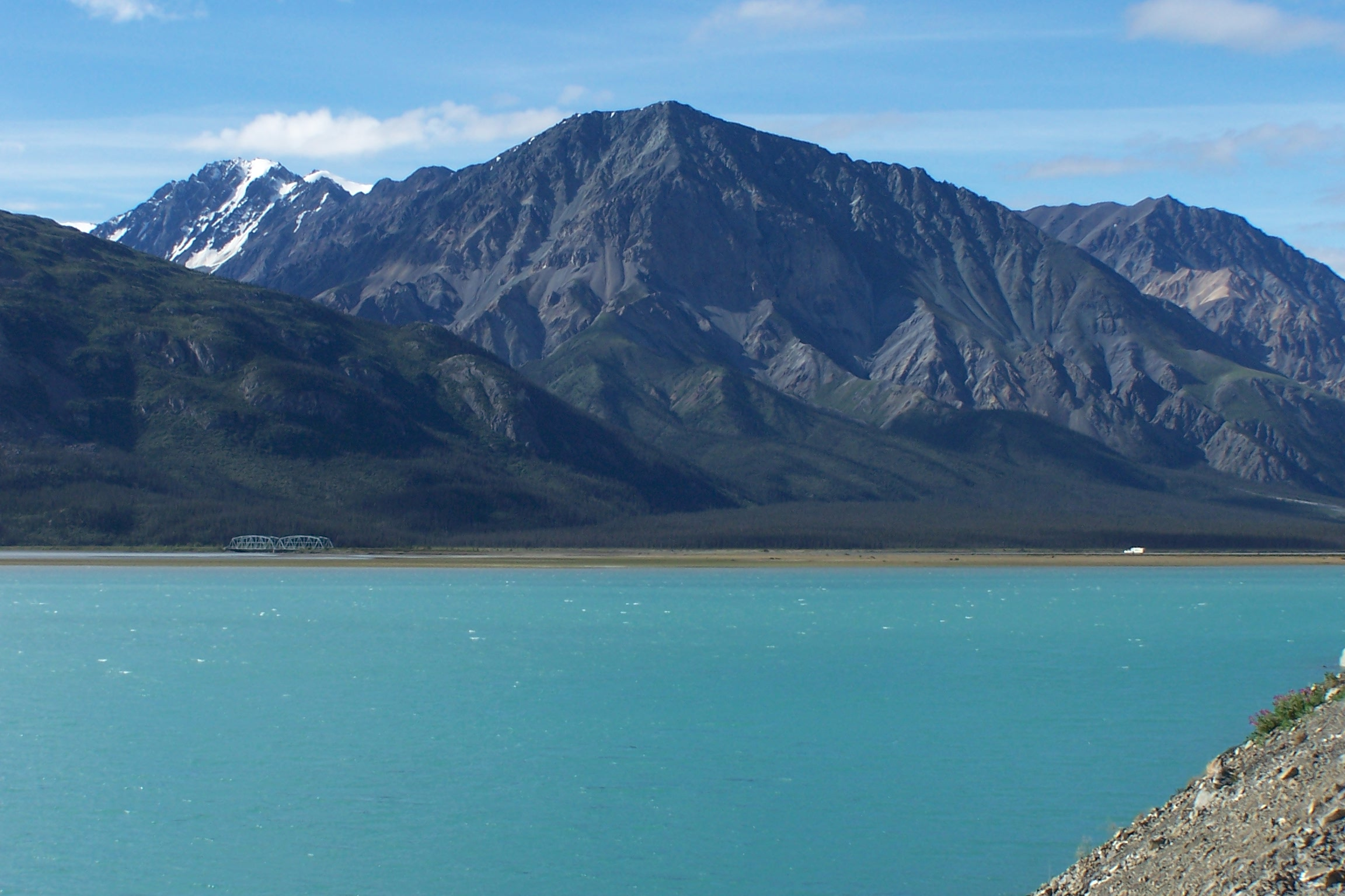 View of Kluane Lake along the Alaska Highway with the mountains of Kluane National Park in the background, Kluane National Park.